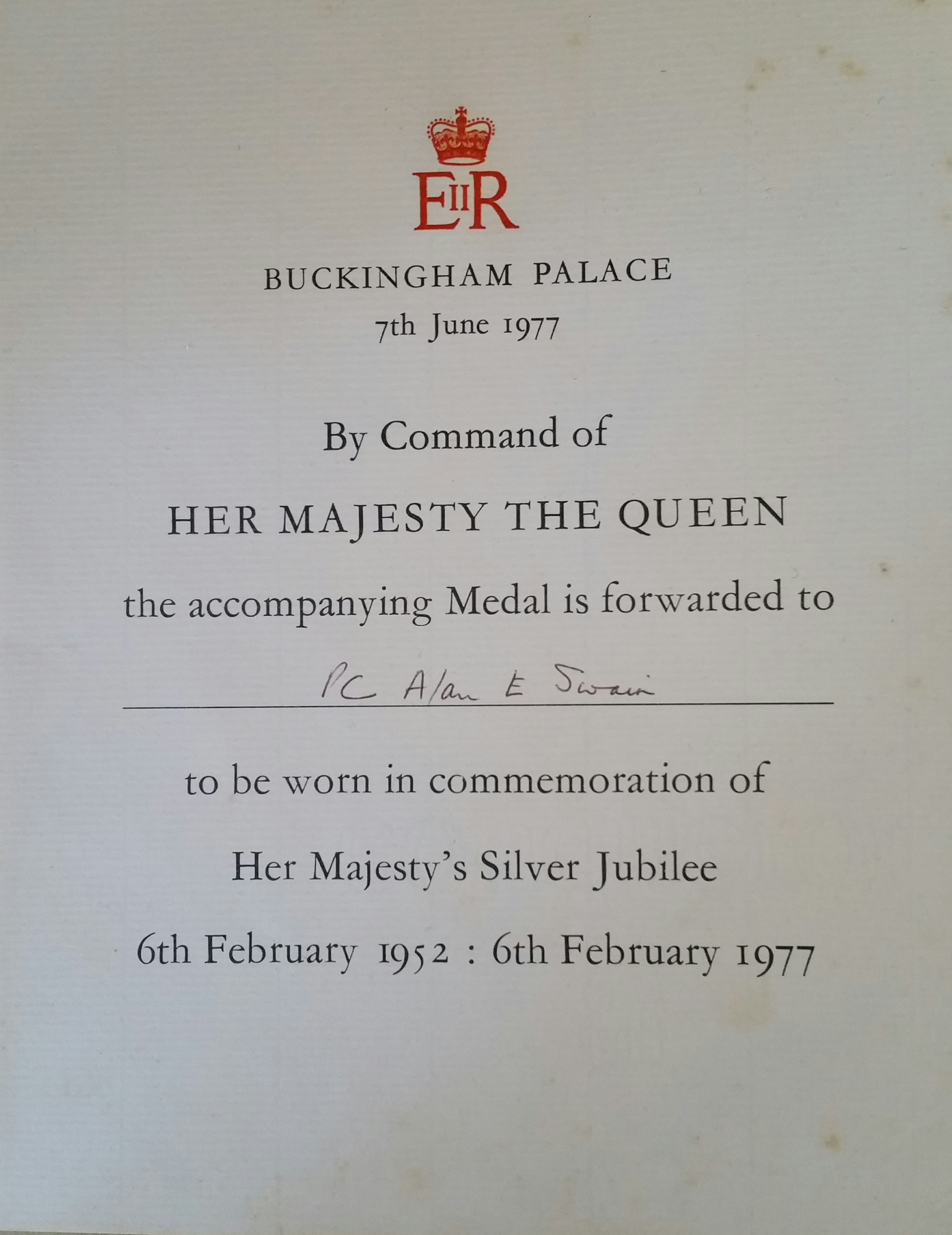 Queens Silver Jubilee Medal Certificate